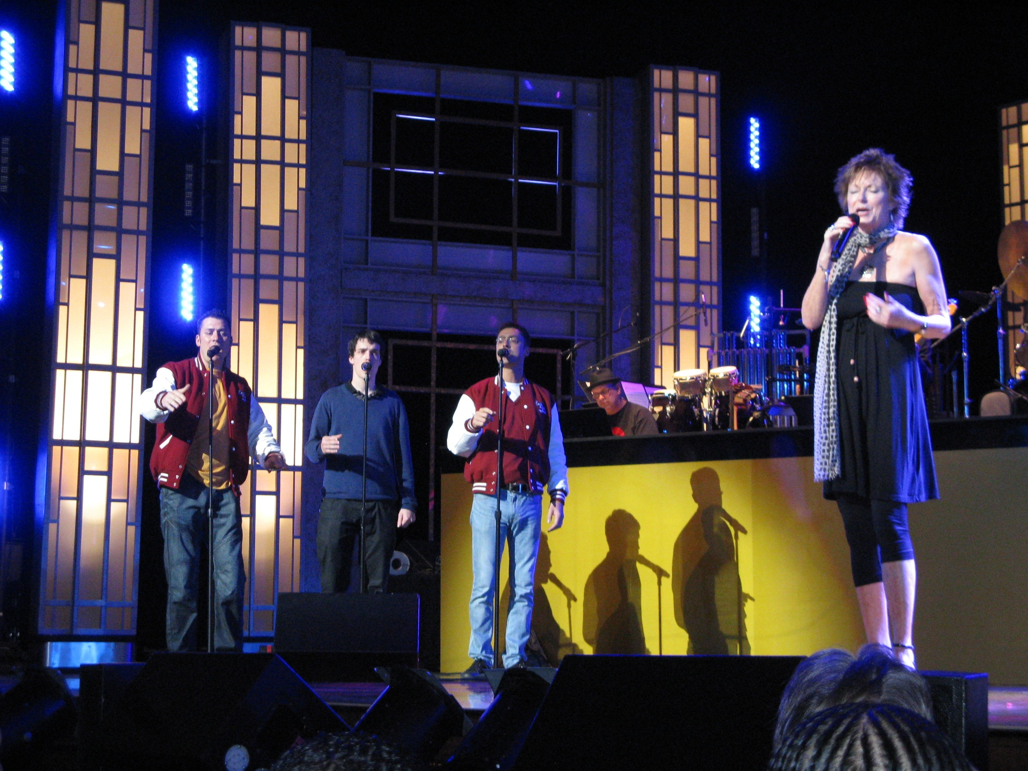 The American doo wop singer Kathy Young with the spanish vocal harmony group of the same genre The Earth Angels, performing the hit A Thousand Stars at the festival celebrated in the Benedum Center for the performing arts in Pittsburgh, Pennsylvania.